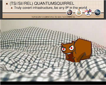 "NSA Malware plans - March 15, 2014 - Follow-up story responding to NSA's malware denial - QUANTUMSQUIRREL"